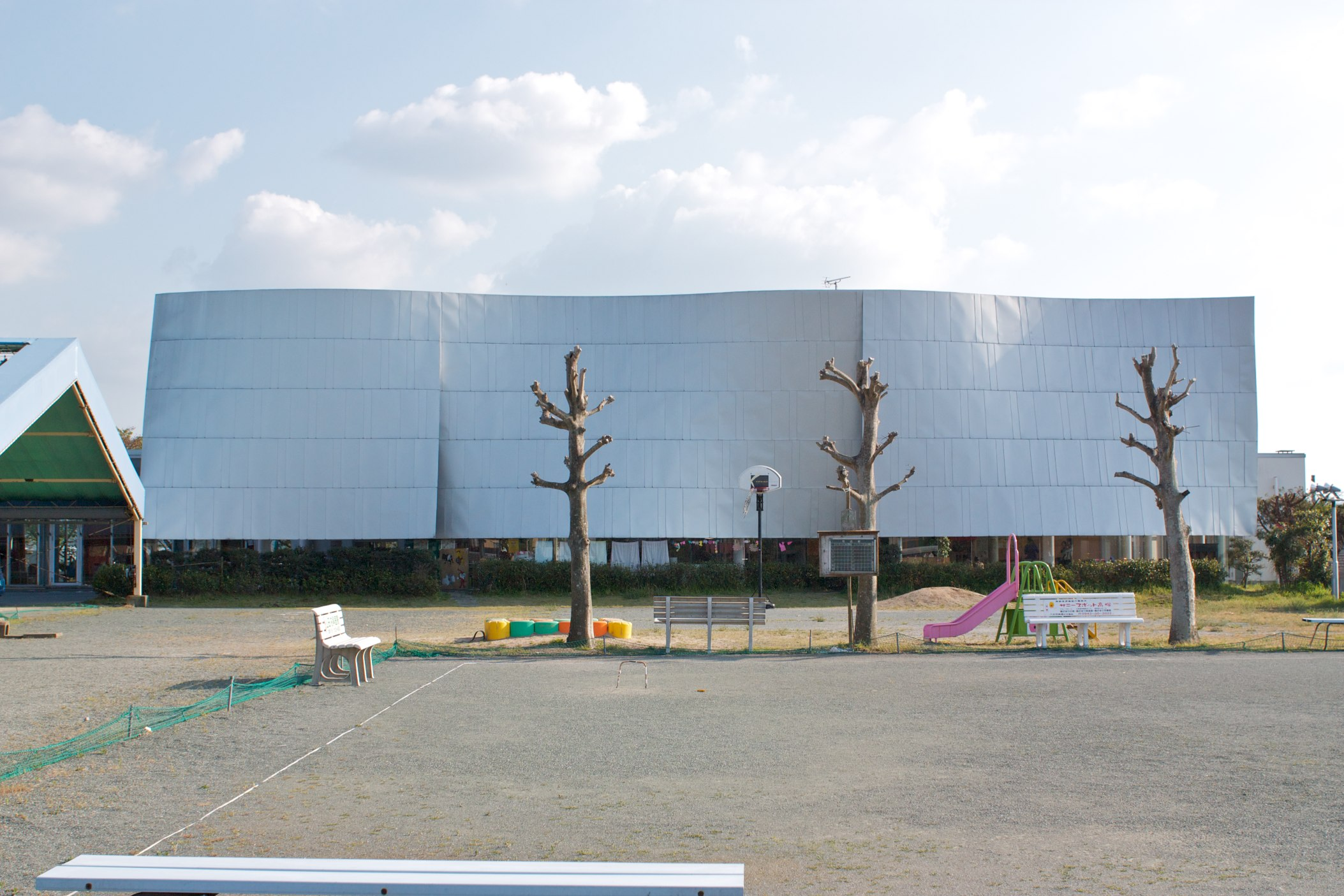 Architecture refined by Aoki Shigeru (青木茂)